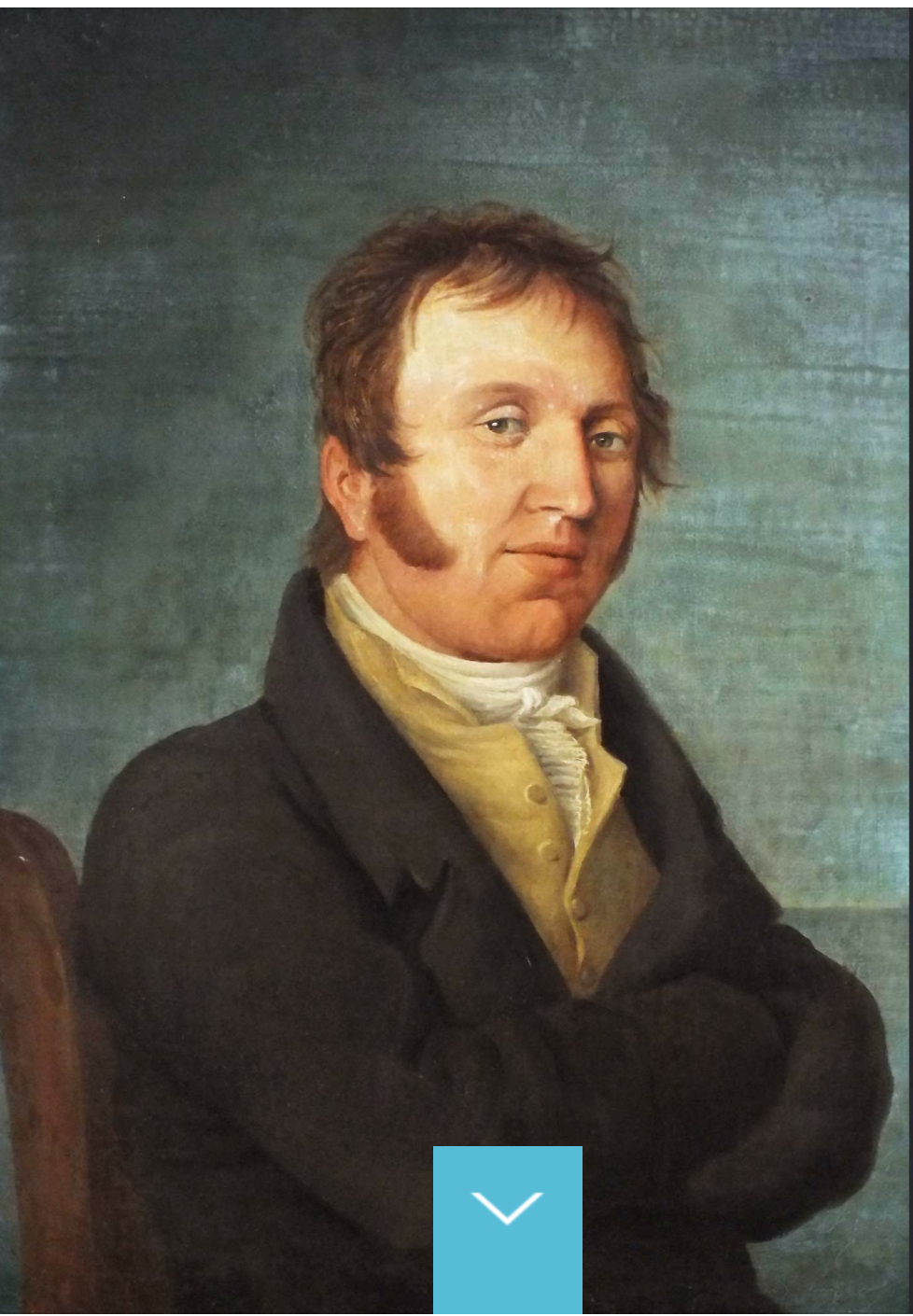 Captain Nicholson Broughton, about 1800 Oil on canvas Museum purchase, 1935 M4145 Captain Nicholson Broughton (1764–1804) was born in Marblehead, Massachusetts, and died in Martinique in 1804.